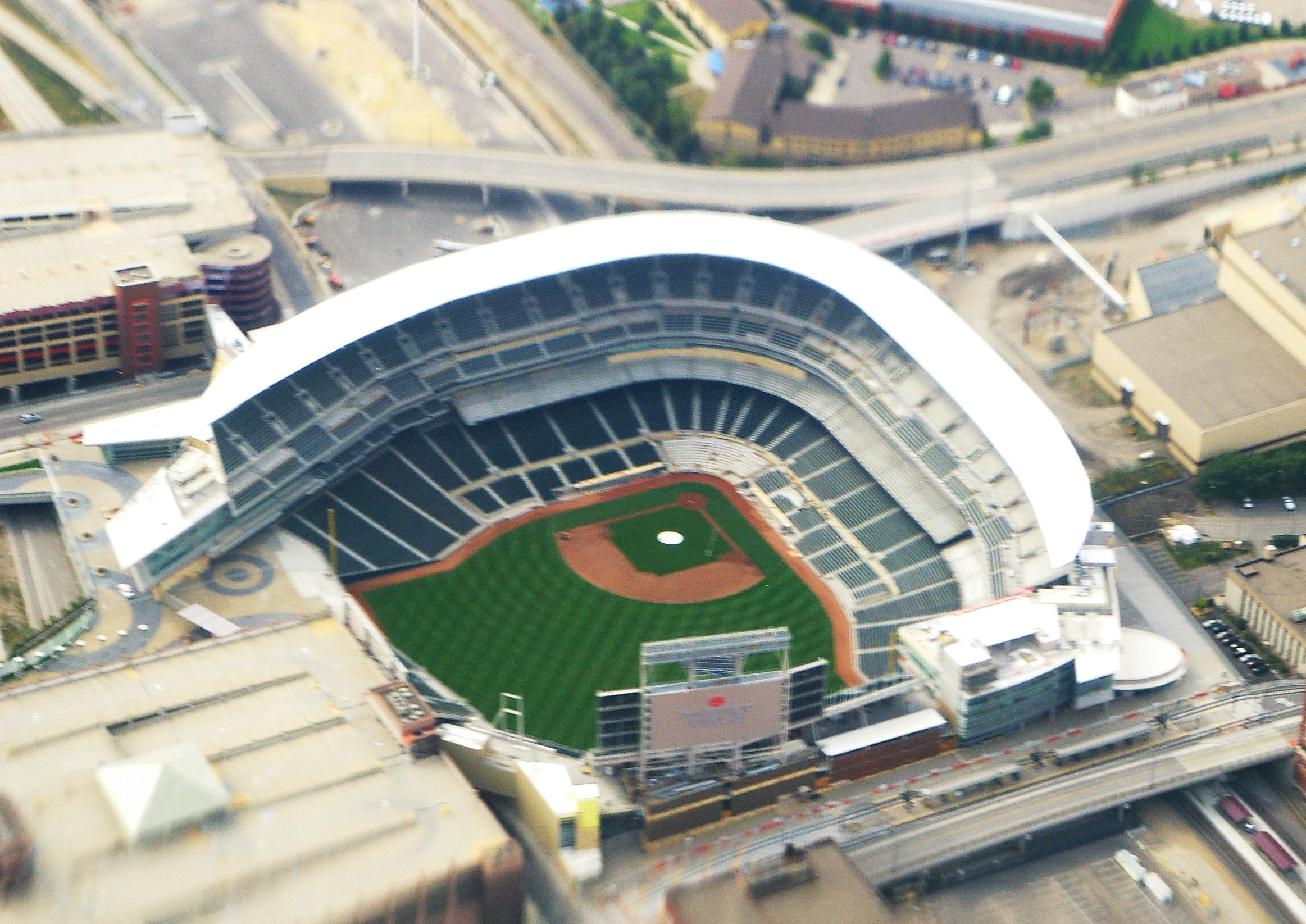 Nearly complete in this September 2009 photo, Target Field becomes the new home of the Minnesota Twins Baseball team as of opening day April 12, 2010. Will seat 40,000 screaming baseball fans.